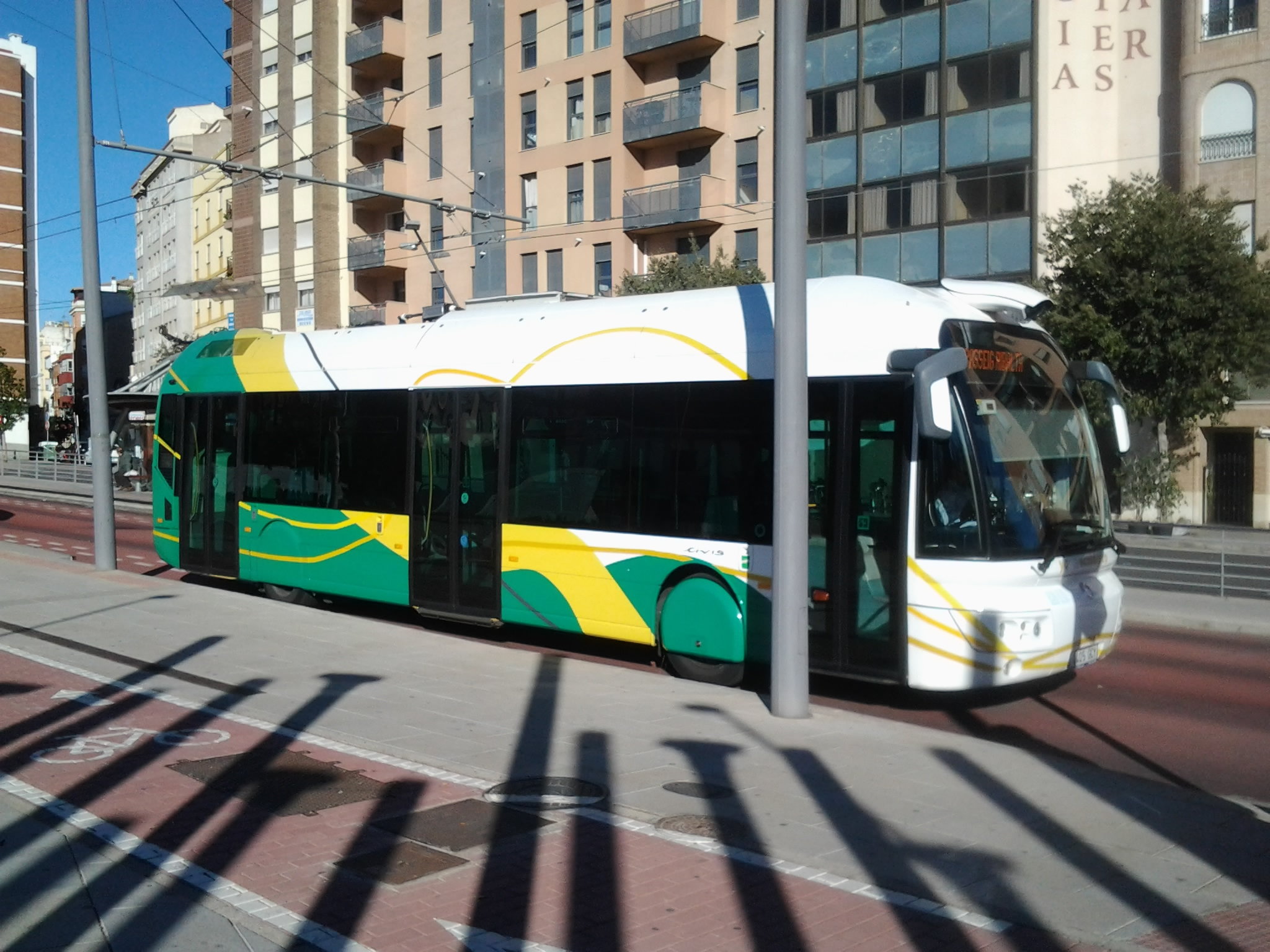 A trolleybus of the optically-guided trolleybus system of Castellón de la Plana, Spain. The system is named "Tram" (or TRAM), for Transport Metropolità de la Plana, but is not a tram system. In this photo, the vehicle had reached the end of the overhead trolley wires, and the driver has lowered the trolley poles (causing them to be hidden from view by the cowling along the roof, with only the outer ends of the two poles visible, at the rear of the vehicle), and the trolleybus will proceed from here on battery power.